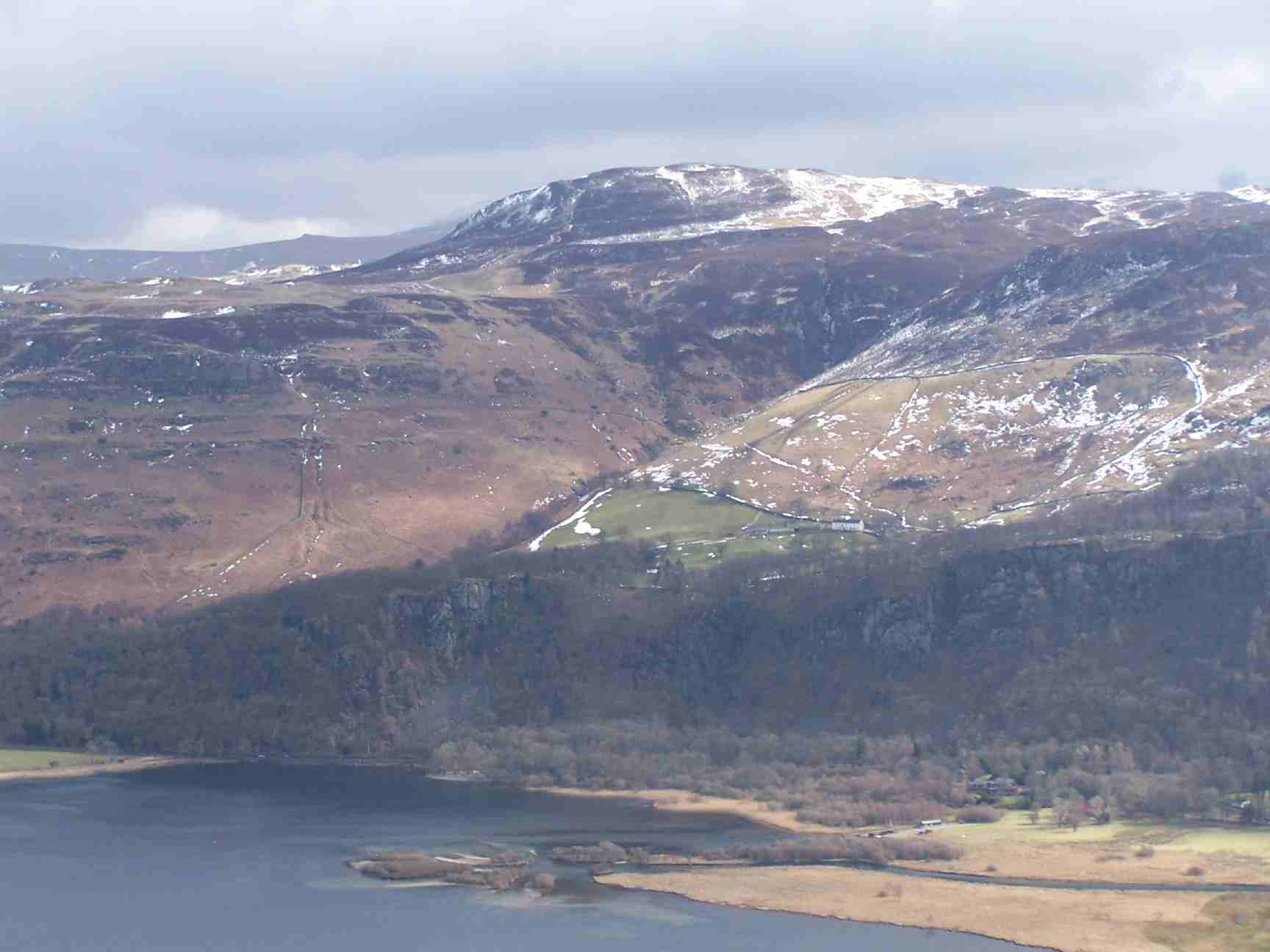 Personal photograph taken by Mick Knapton